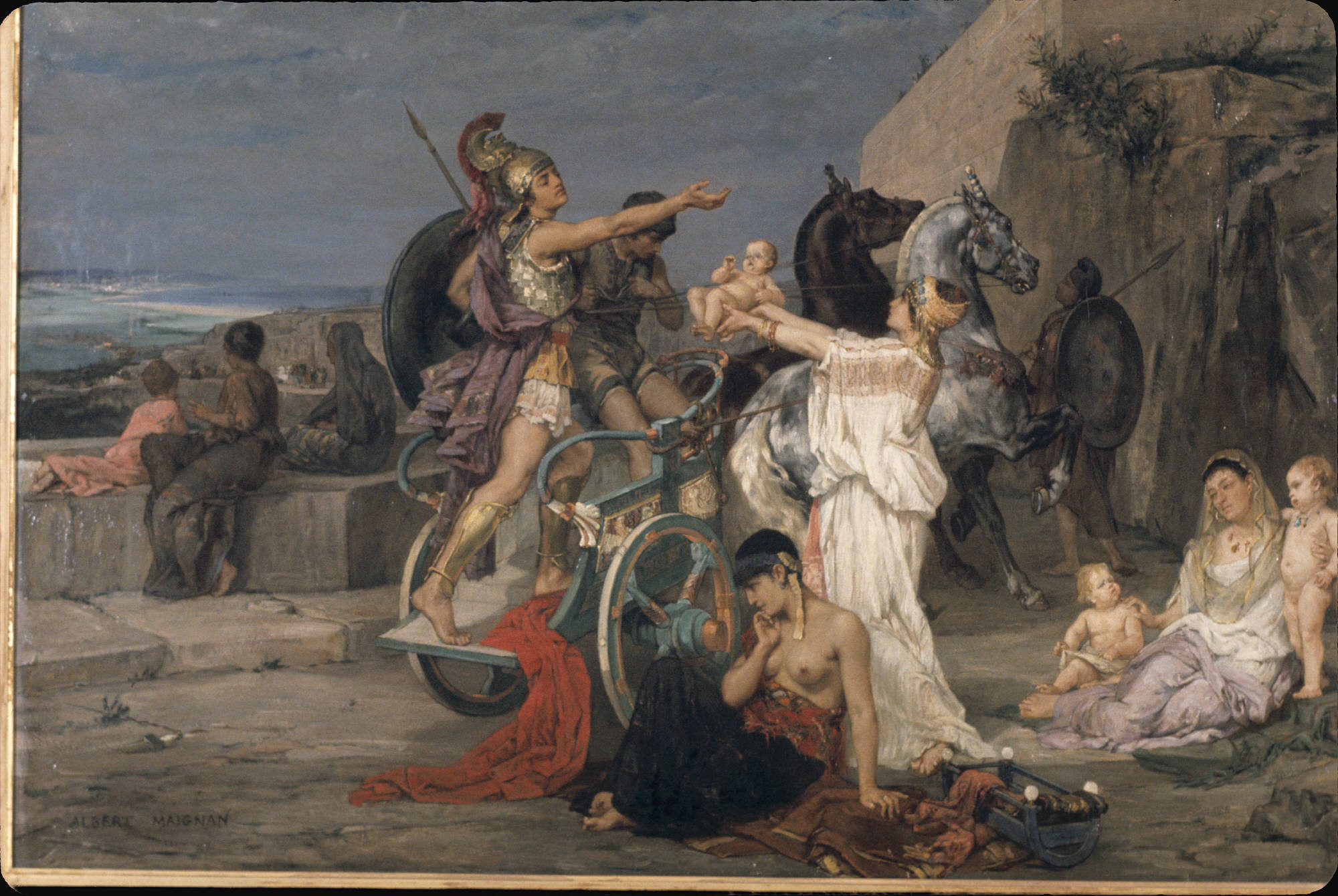 Albert Pierre Rene Maignan, French, 1845 – 1908 Place made: France, The Departure of Hektor, Oil on canvas, 68 x 100.8 cm. (26 3/4 x 39 11/16 in.) frame: 55 × 69 × 5 cm (21 5/8 × 27 3/16 × 1 15/16 in.) Museum purchase, Caroline G. Mather Fund y1962-1